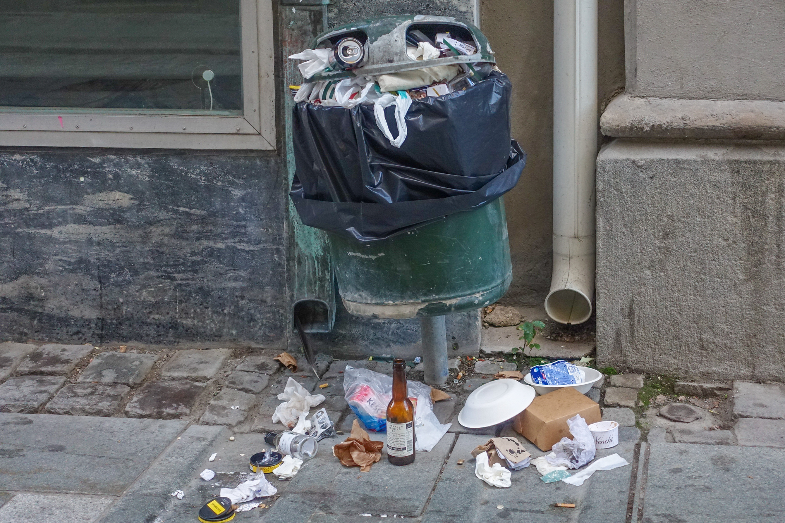 Littering on a street in Stockholm in September 2018.